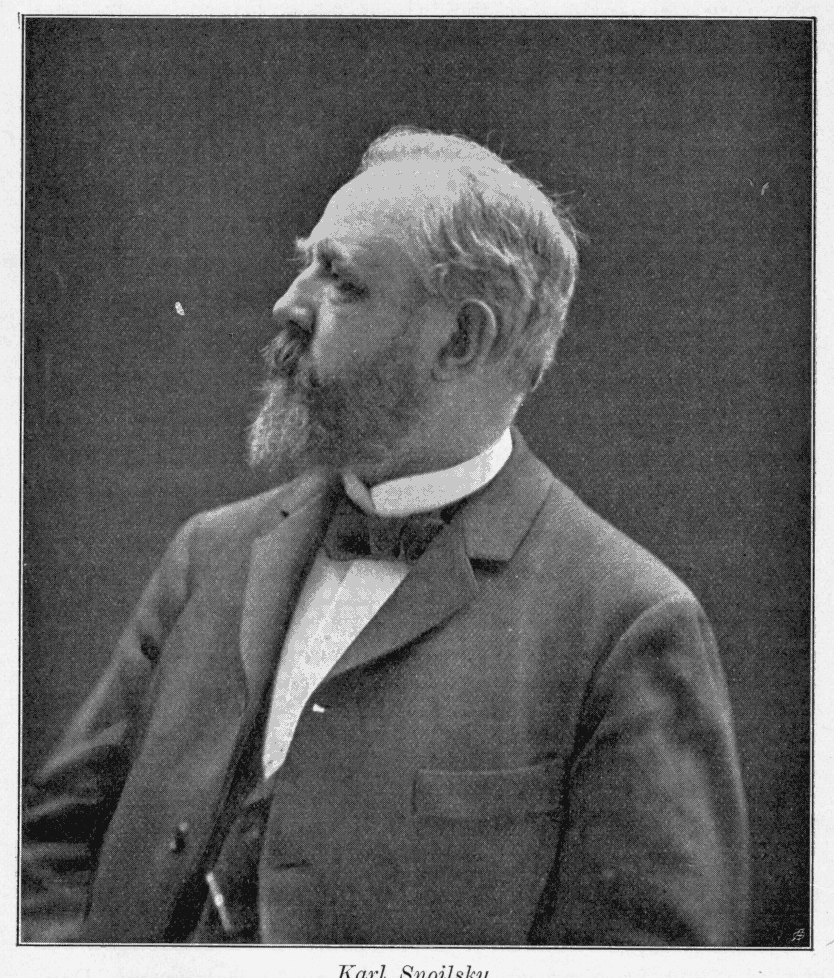 Swedish poet Carl Snoilsky